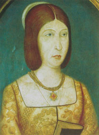 Isabella I of Castile, queen of Castile and León